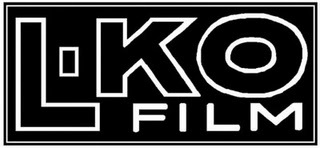 This is the logo used for L-KO Komedies, a motion picture production company that lasted from 1914 to 1919.